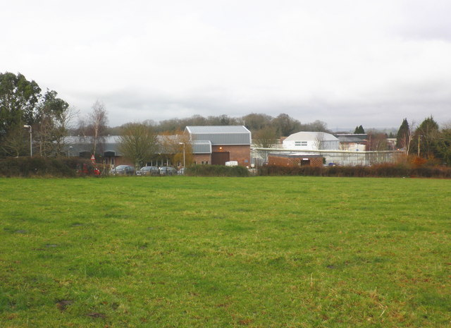 HM Prison, Channings Wood A category C institution.